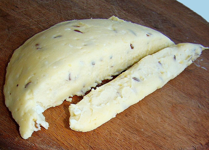 Cooked cheese with caraway